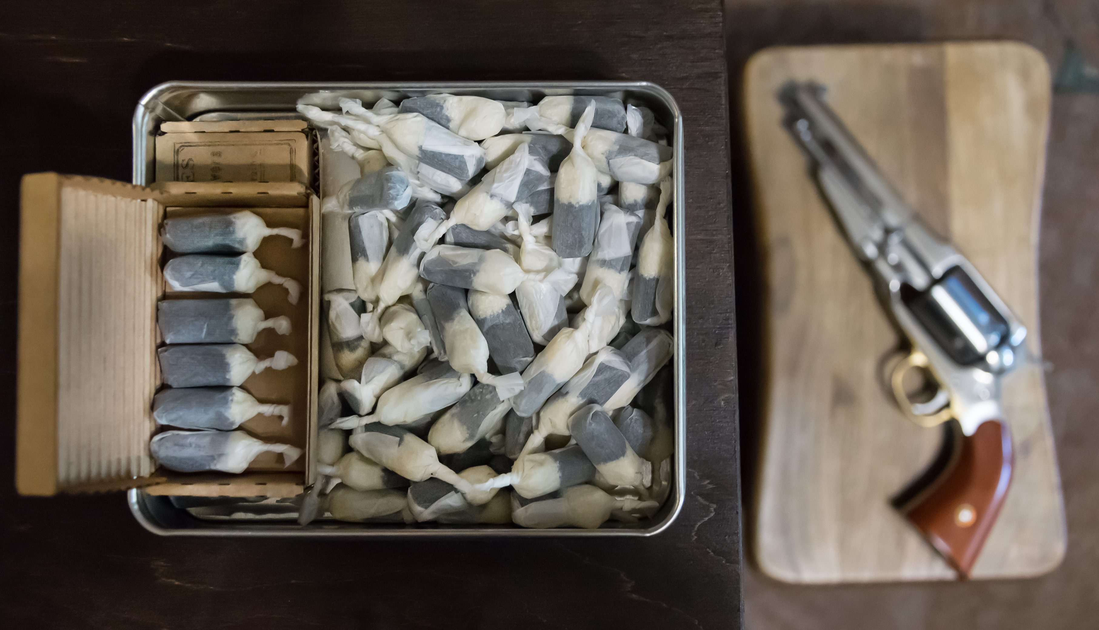 Cartridges .44 without bullets